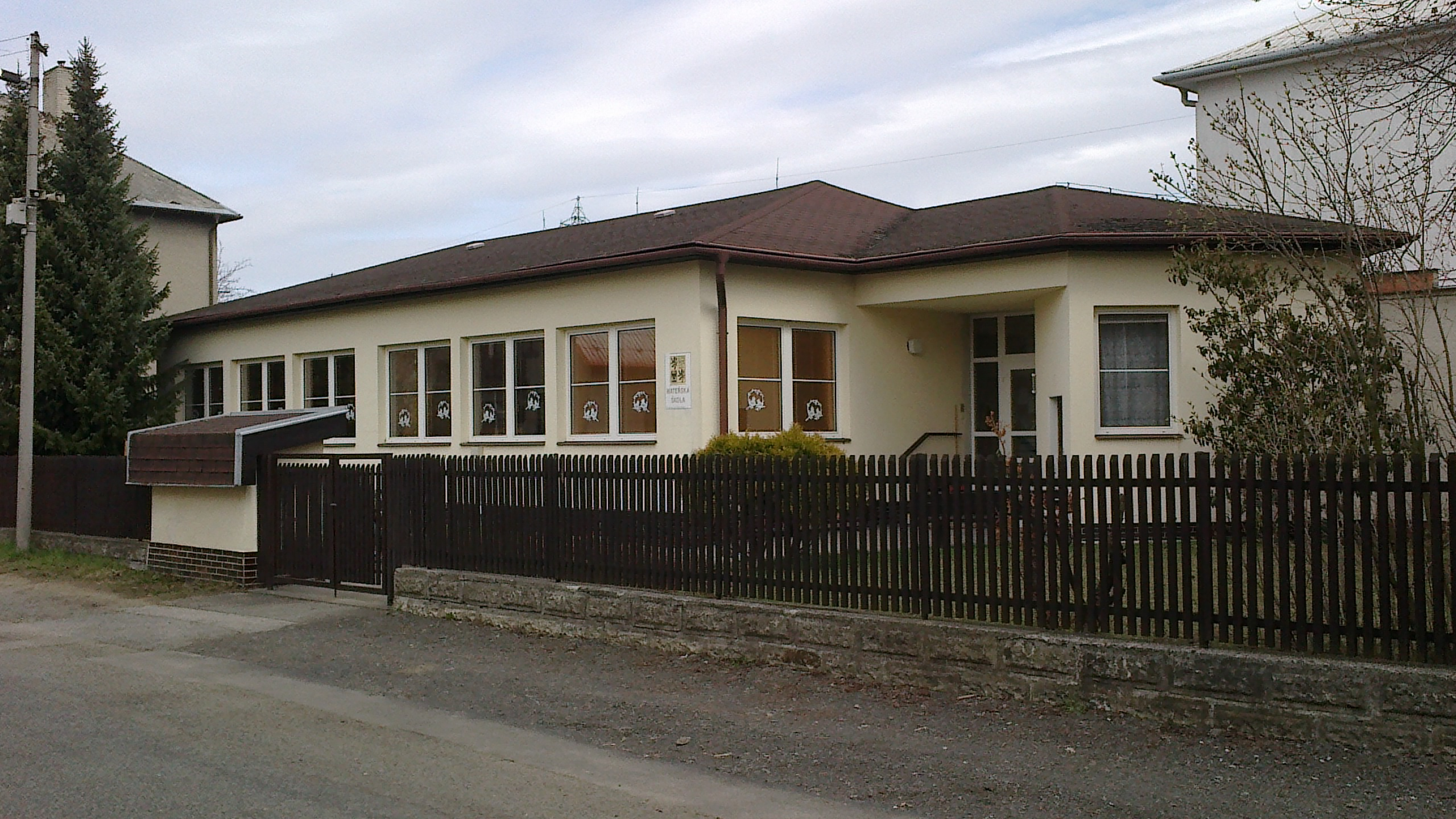 Poličná, Vsetín District, Czech Republic.